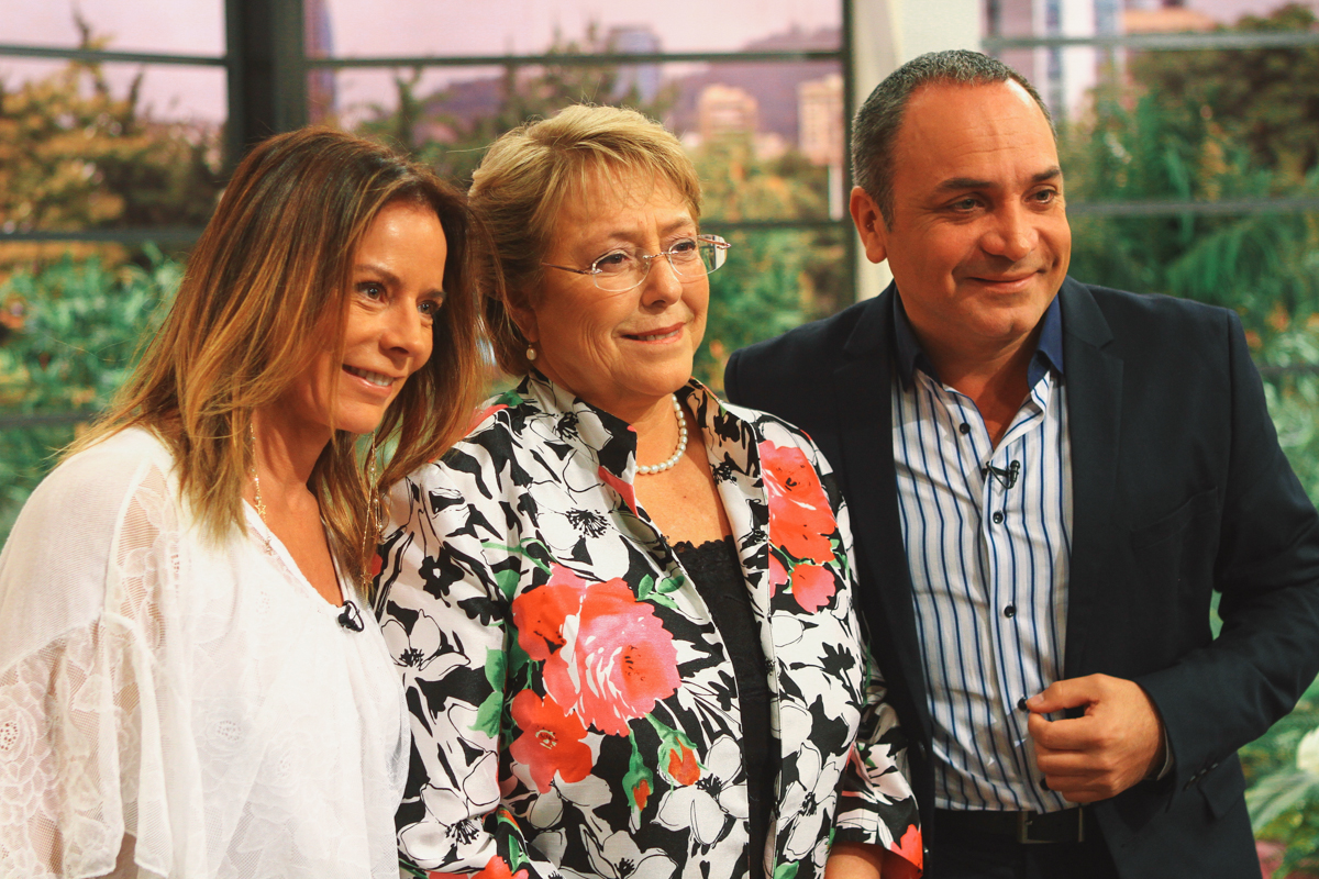 Katherine Salosny, Michelle Bachelet y Luis Jara.